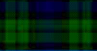 Black Watch tartan